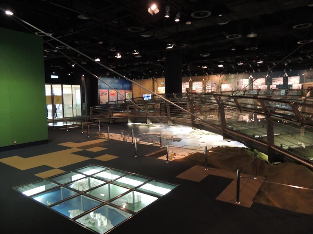 Hong Kong Housing Authority Exhibition Centre